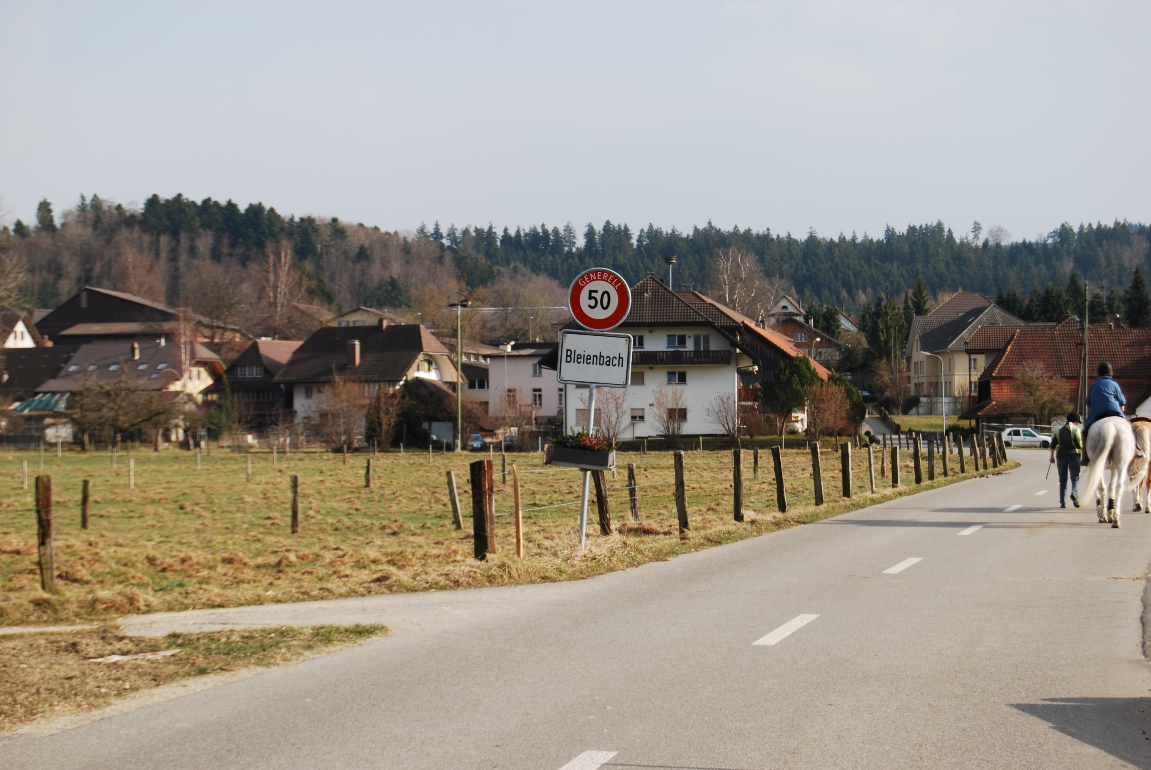 Bleienbach, canton of Bern, SwitzerlandEsperanto: Bleienbach, Kantono Berno, Svislando